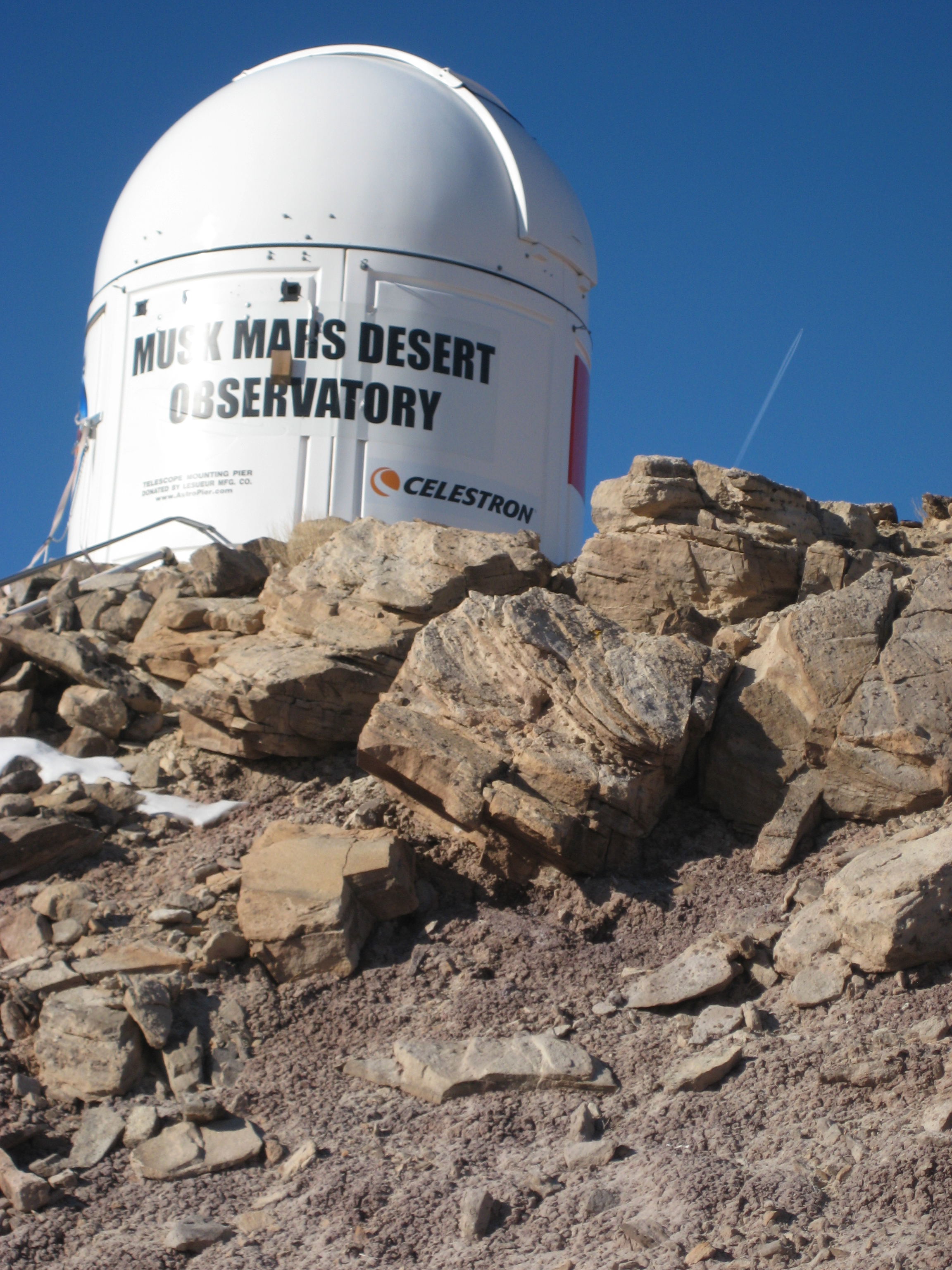 The Musk Observatory located at the Mars Desert Research Station